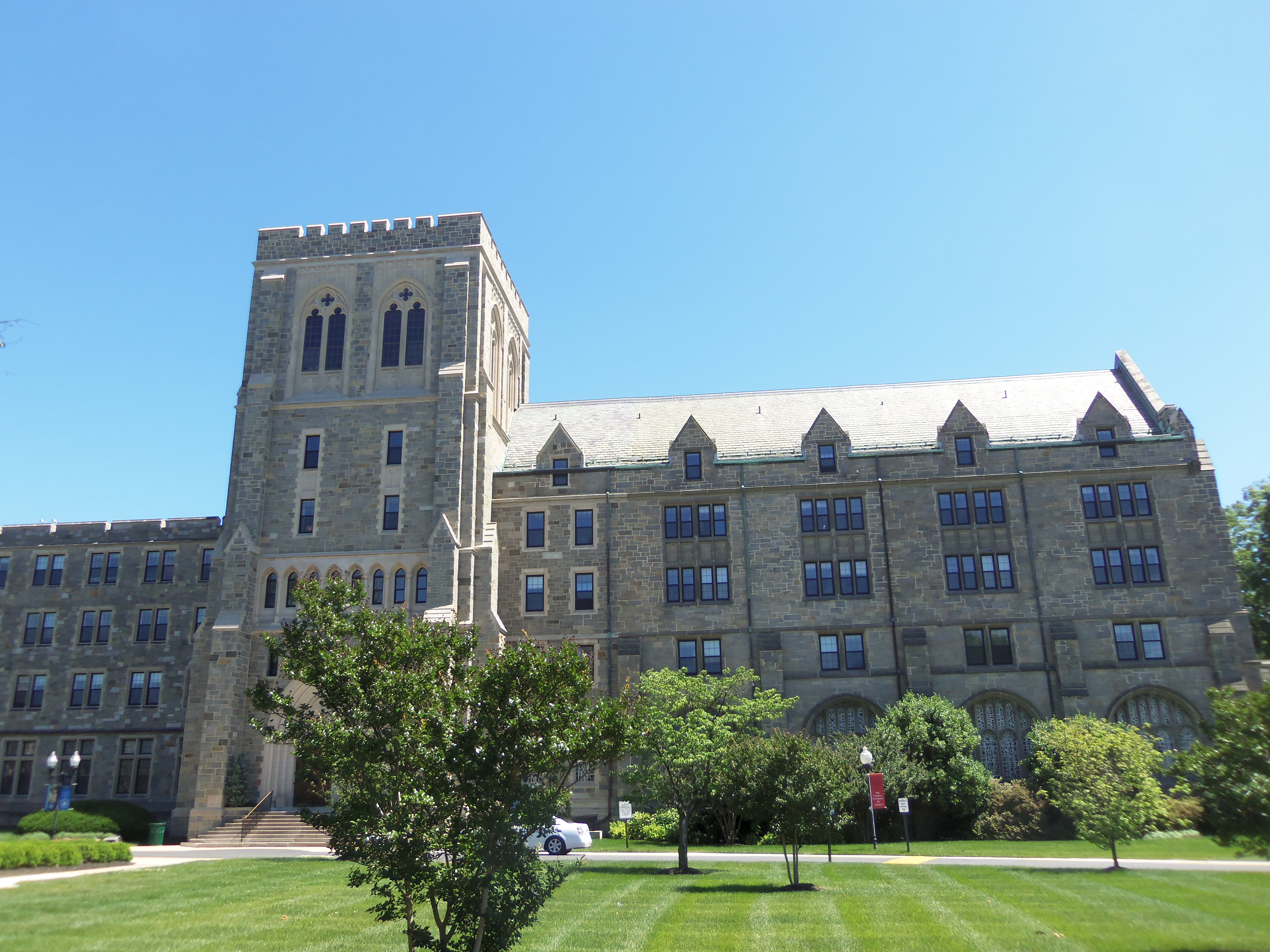 Theological College, a seminary, at The Catholic University of America.